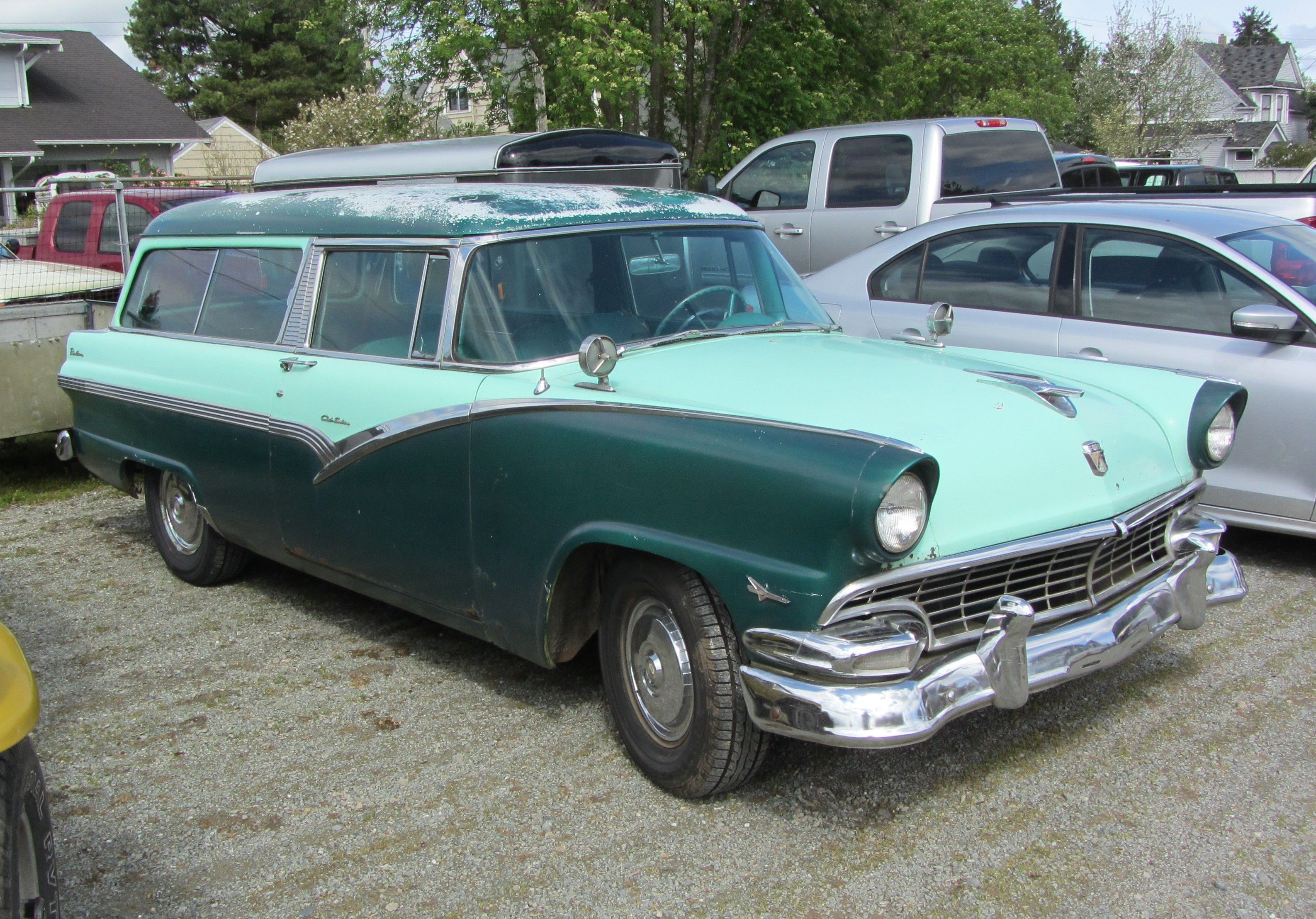 1956 Ford Parklane station wagon seen at the spring car and bike flea market at the Skagit County Fairgrounds.